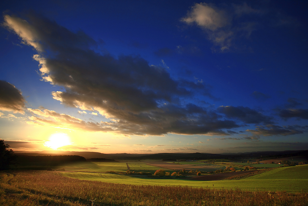 Sonnenuntergang bei Voremberg in der Nähe von Hameln